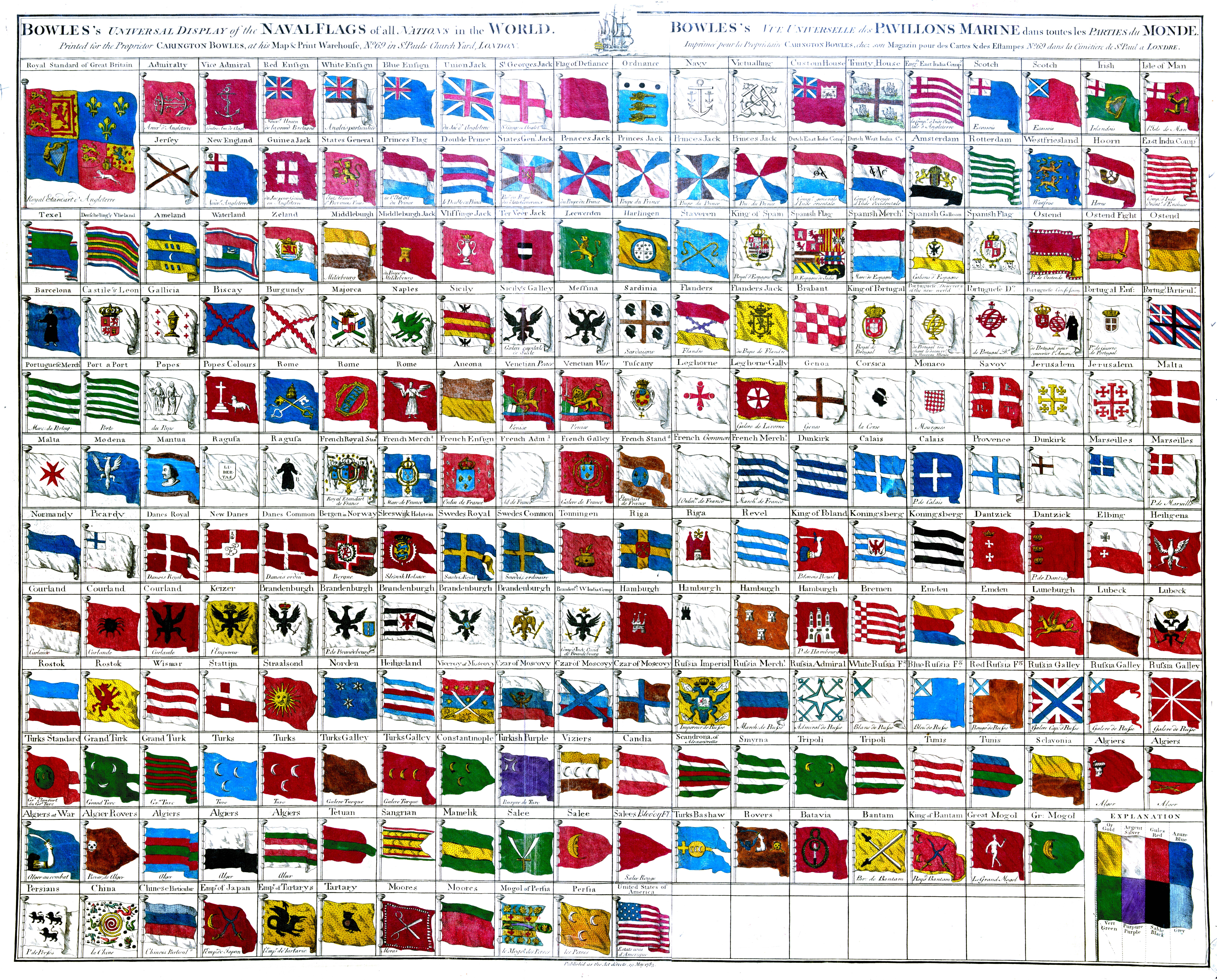 Maritime flag chart of the world ("Bowles's Universal Display of the Naval Flags of all Nations"), 1783. Includes unofficial Irish green ensign, and the flag of the United States added as an afterthought at the very end.